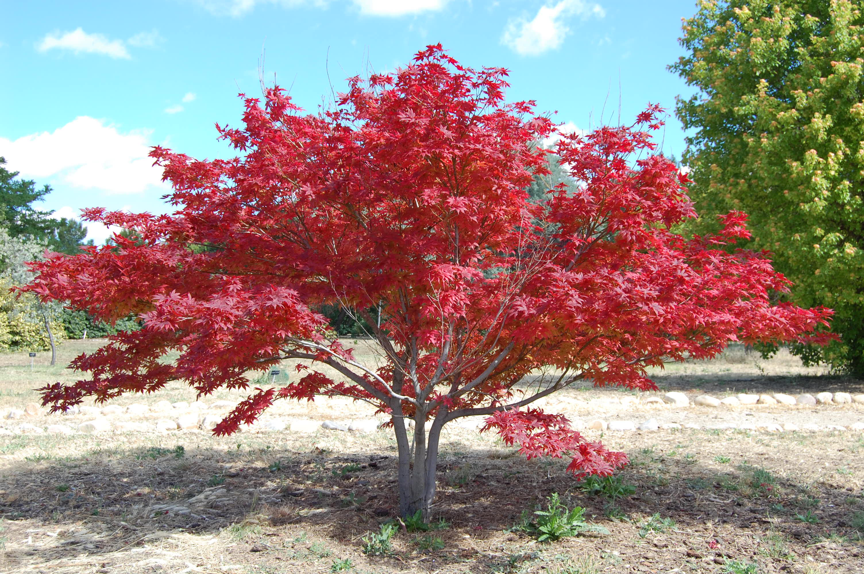 Royal Botanic Gardens, Juan Carlos I, located on the campus of Alcalá de Henares (University of Alcalá). Founded in 1990. Exotic arboretum: Acer Palmatum Ornatum.